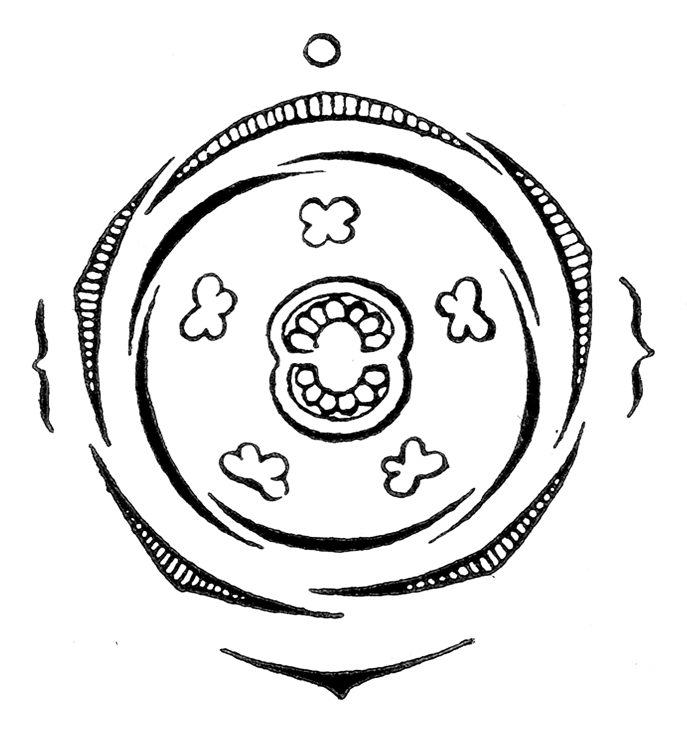 flower diagram of Verbascum